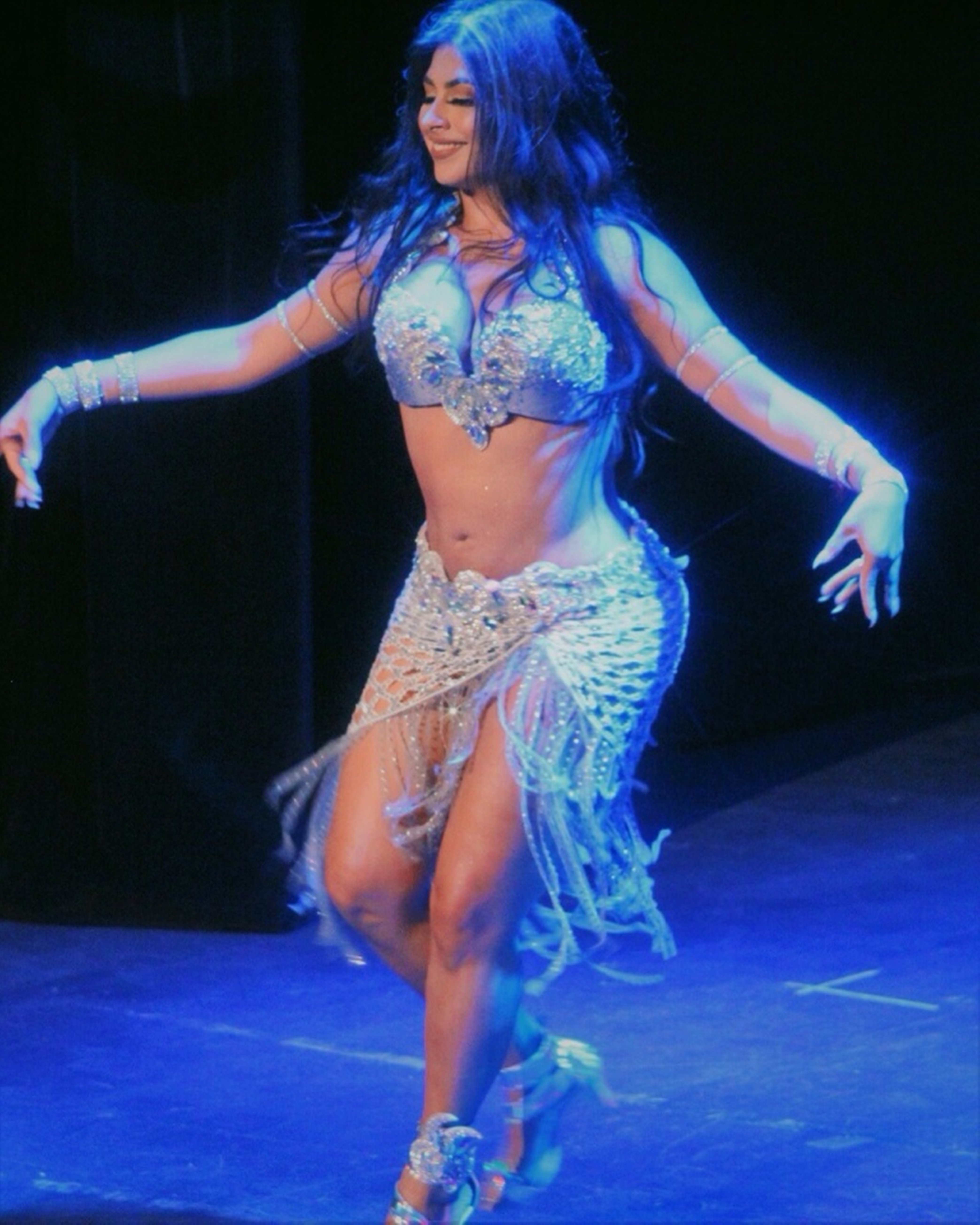 Female dancer, mexican, performing an arab song in a show of Oriental Cabaret.